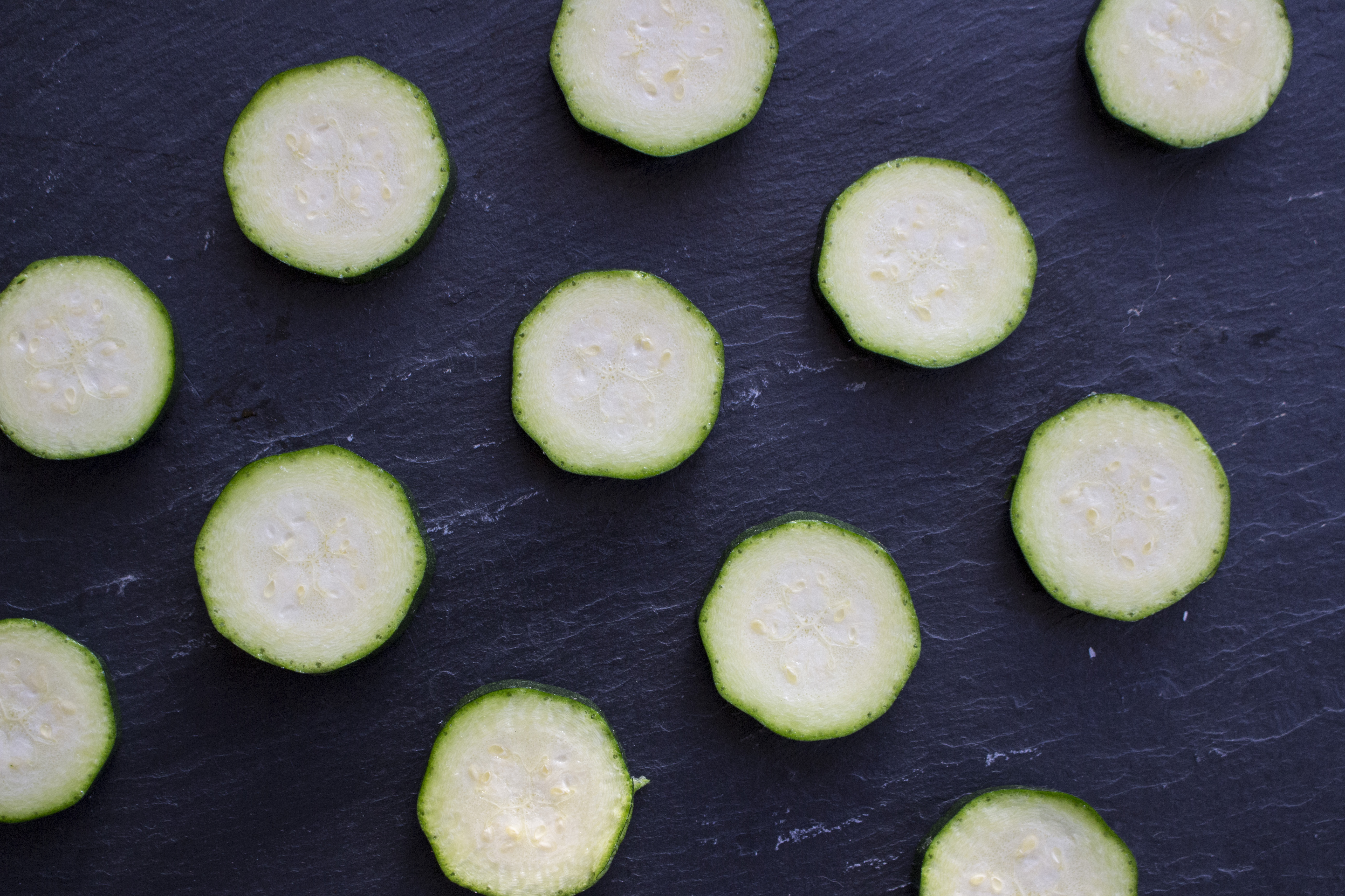 Round zucchini slices. Not my favorite vegetable but the background was perfect for this shot.